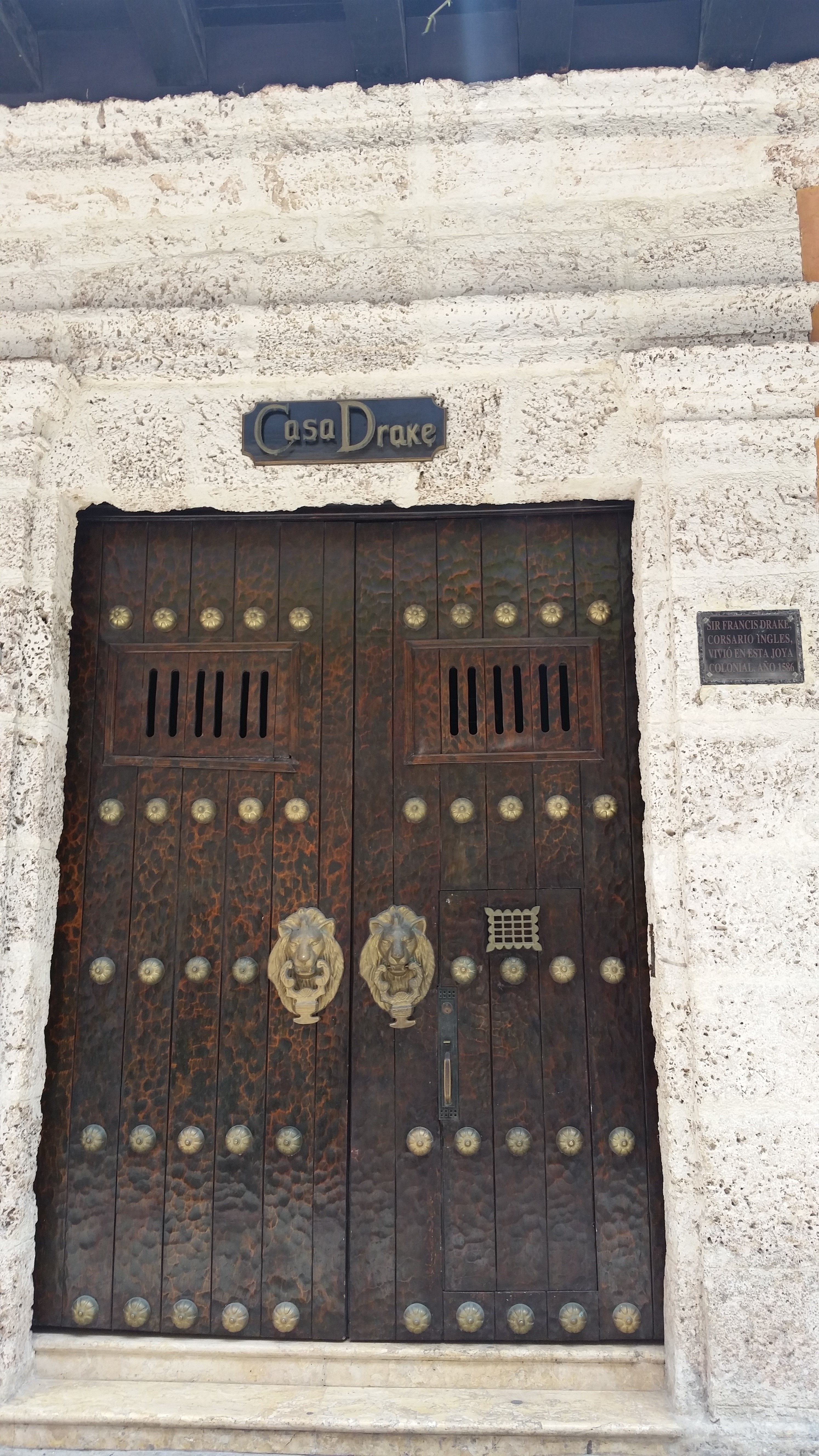 Historical marker in Cartagena, Colombia